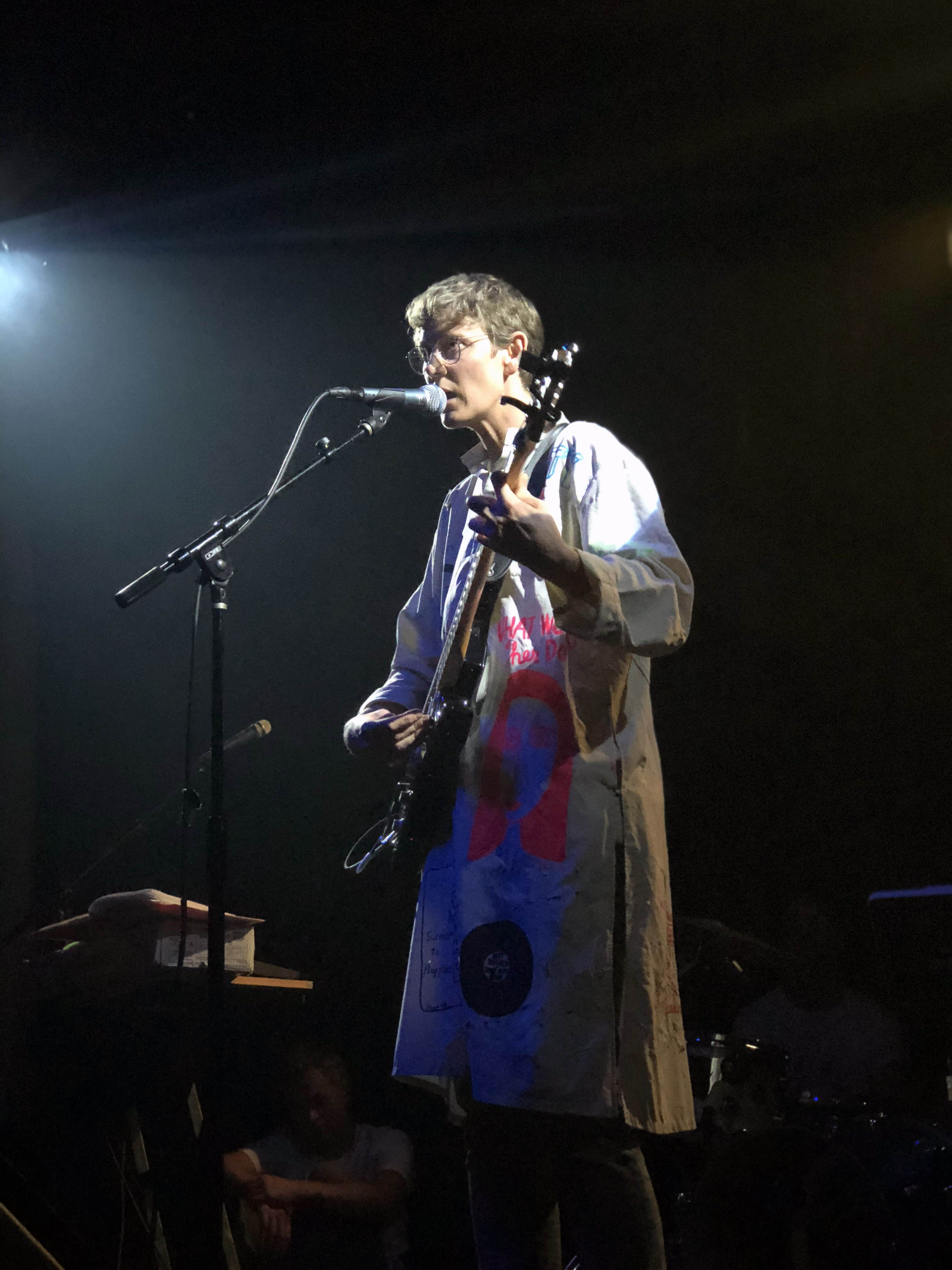 Katy Davidson of the band Dear Nora performing at the Starline Social Club in Oakland, California.